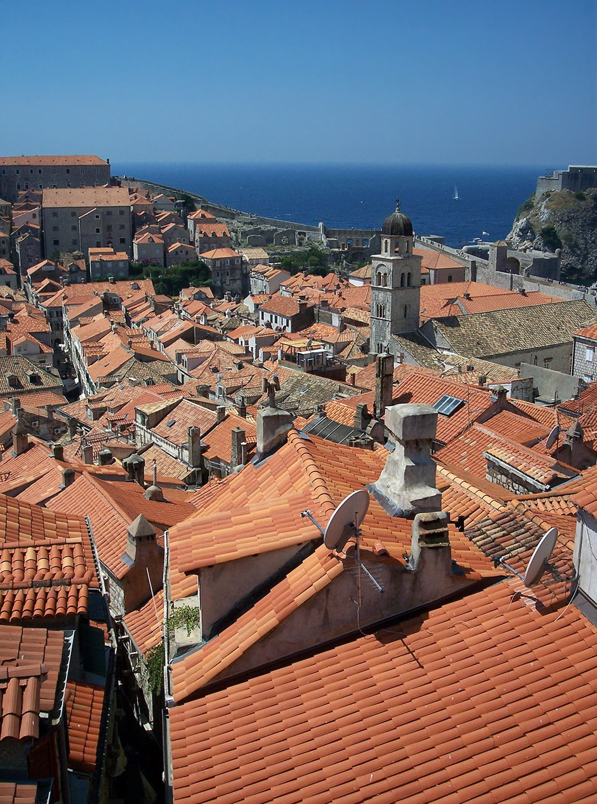 View on Dubrovnik (Croatia).